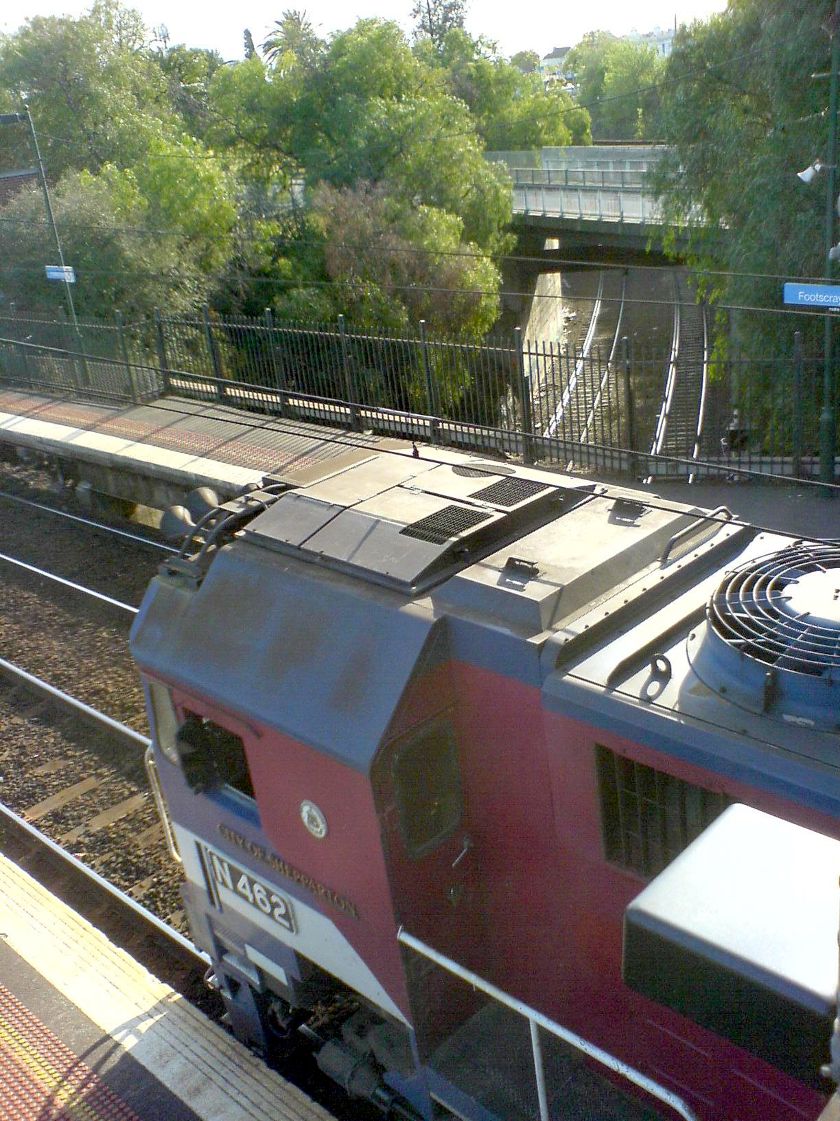 Bunbury Street Tunnel entrance, taken from overpass above Footscray Station, Melbourne, Australia